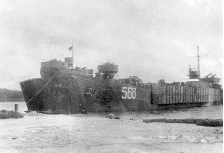 United States Navy tank landing ship USS LST-568 on the beach in the Russell Islands in the Solomon Islands